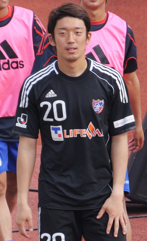 Cropped from DSC_4428